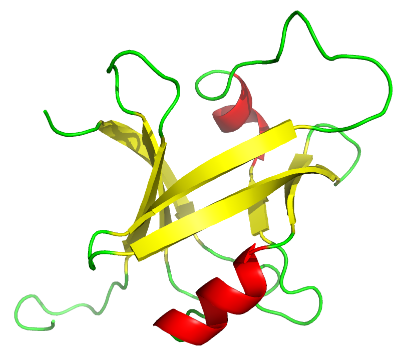 Cartoon representation of the three-dimensional protein structure of the B3 DNA binding domain (DBD), corresponding to Arg182–Ala298 of protein RAV1. The image is based on crystal structure PDB ID 1WID